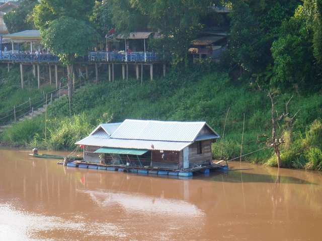 Traditional house-boats on the Nan river, Phitsanulok.